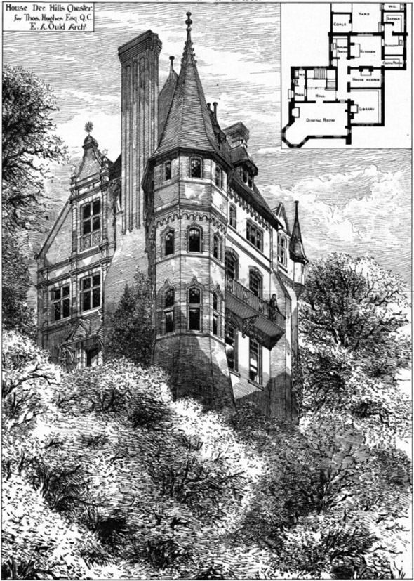 Drawing of Uffington House